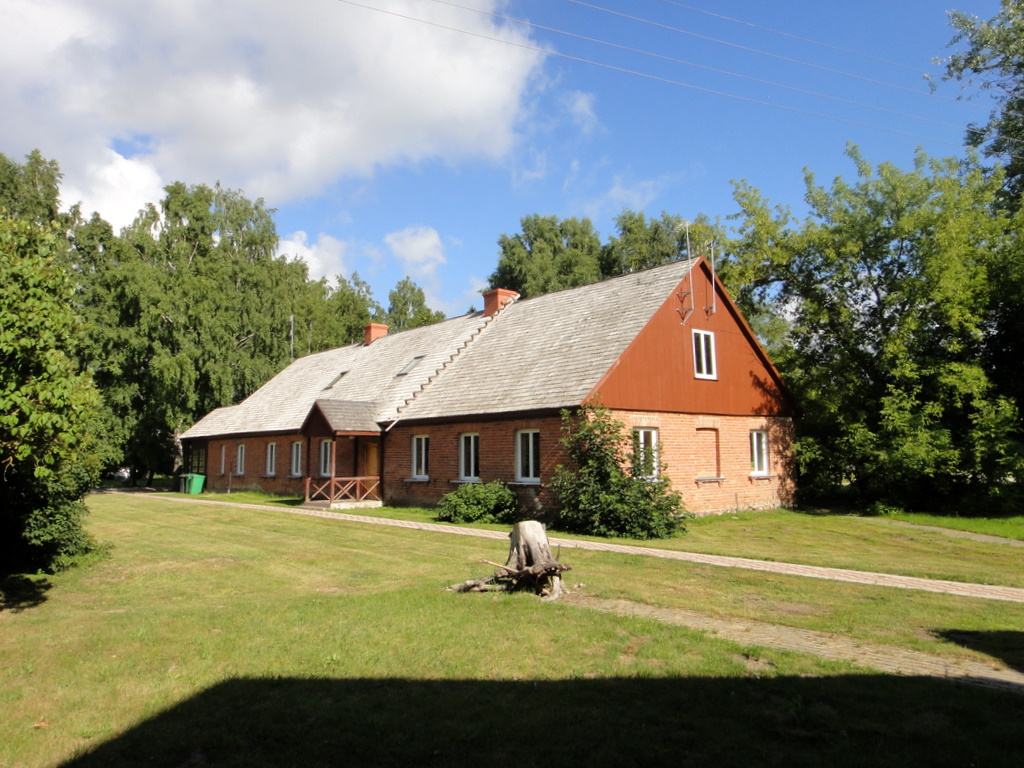 Jūrkalne library and museum